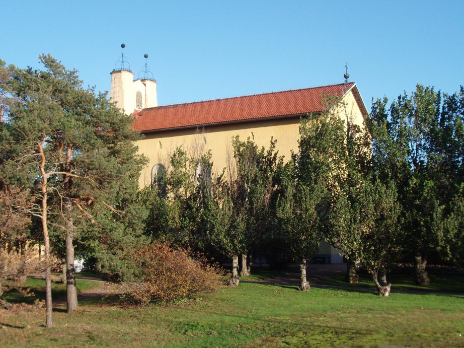 Cremation site in Helsinki. The site is surrounded by trees, so it is impossible to get a clear view, apart from the entrance door. Architect: Bertel Liljeqvist